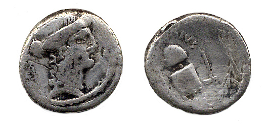 Roman Republican silver denarius of the moneyer T. Carisius IIIVir, Rome, 46 BC: Head of Juno Moneta with implements for striking coins. RRC 464/2